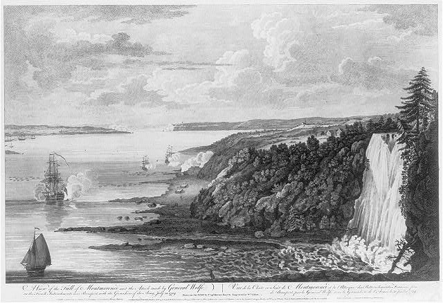 Engraving entitled A view of the fall of Montmorenci and the attack made by General Wolfe, on the French intrenchments near Beauport, with the Grenadiers of the army, July 31 1759, by William Elliott, after a drawing by Captain Hervey Smith